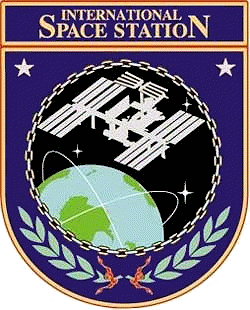 International Space Station insignia.